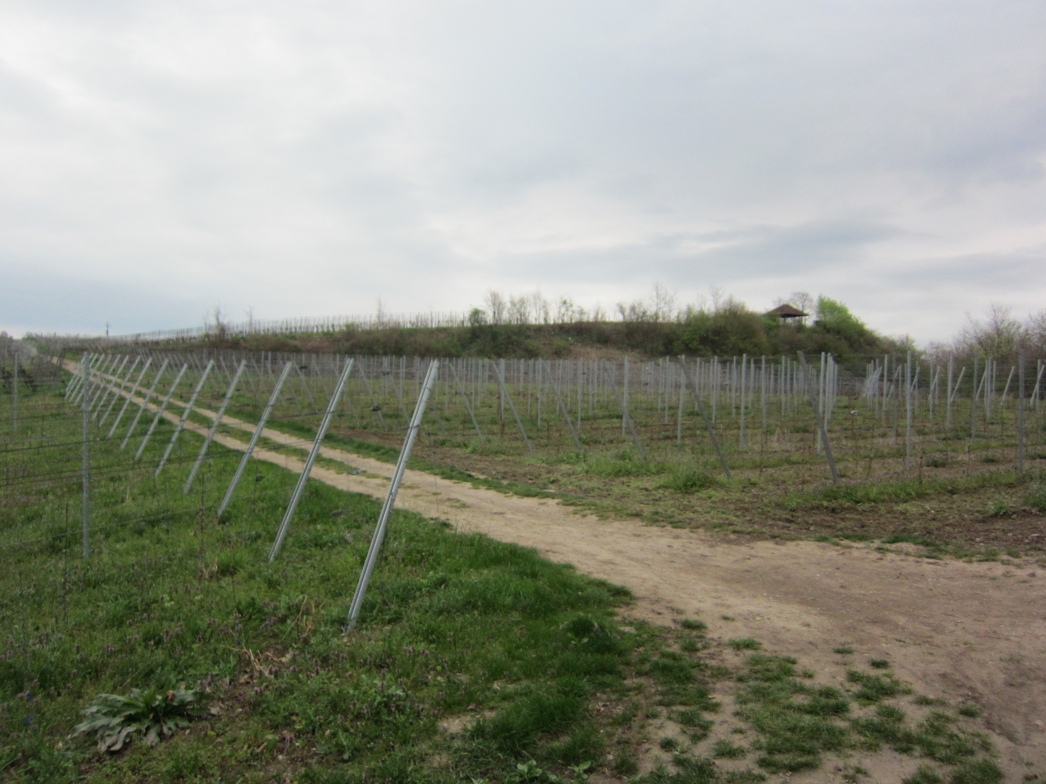 Alte Limburg, outer bailey area, view towards northeast